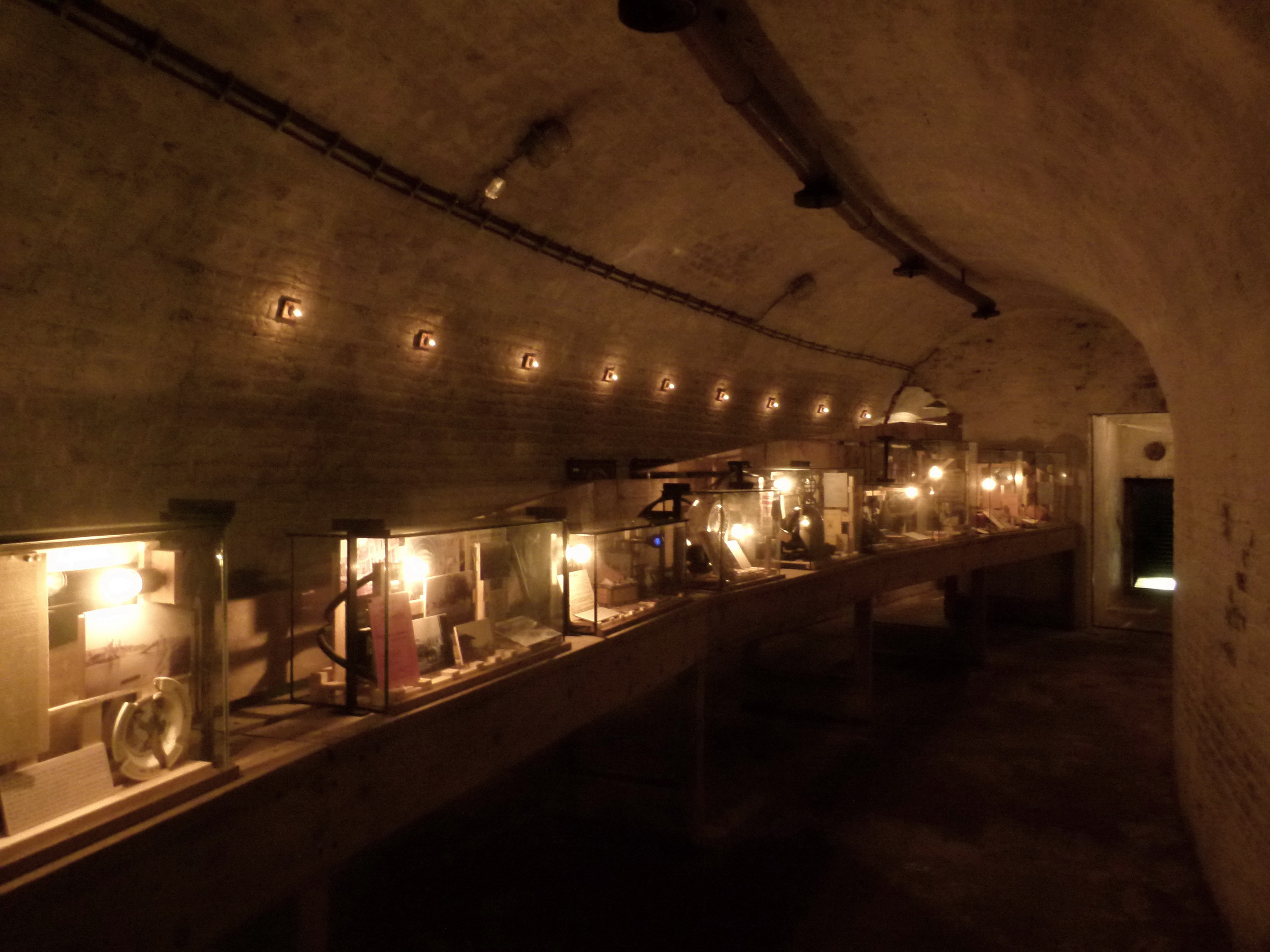 Maastricht, the Netherlands. View of a permanent exhibition on World War II in the small museum Schuilen in Maastricht ("Hiding in Maastricht"). The museum uses two galleries in the caponier Wilcke, part of the extensive network of underground fortifications (Kazematten) on the westside of Maastricht. Like other parts of the Kazematten, the caponier Wilcke was used during World War II as a bomb shelter. During the Cold War it was prepared for a limited number of people (100) in the event of nuclear war.